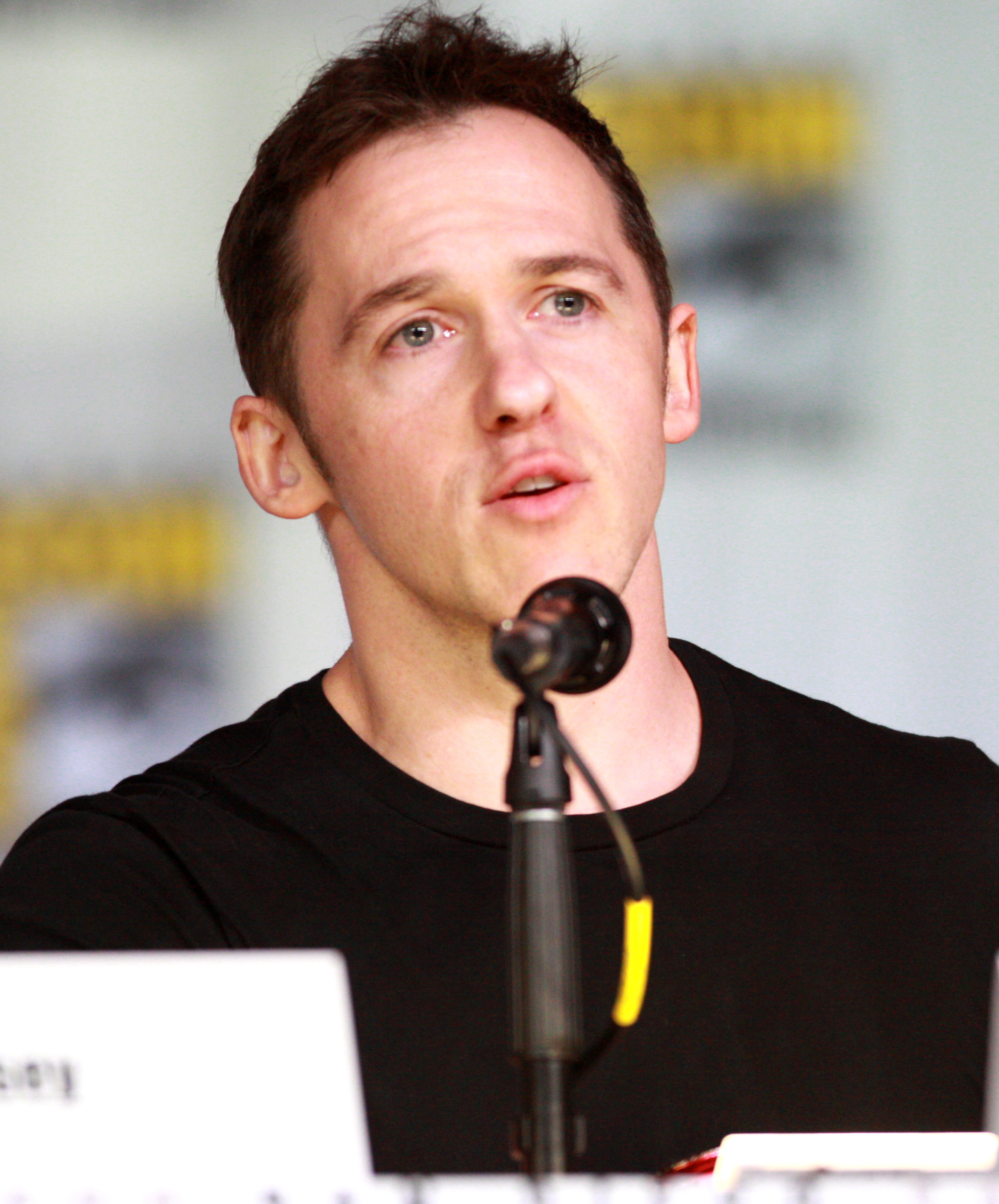 Jeff Davis (writer) at the 2013 San Diego Comic Con International in San Diego, California. HE KNOWSSS B